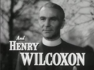 Cropped screenshot of Henry Wilcoxon from the trailer for the film The Miniver Story